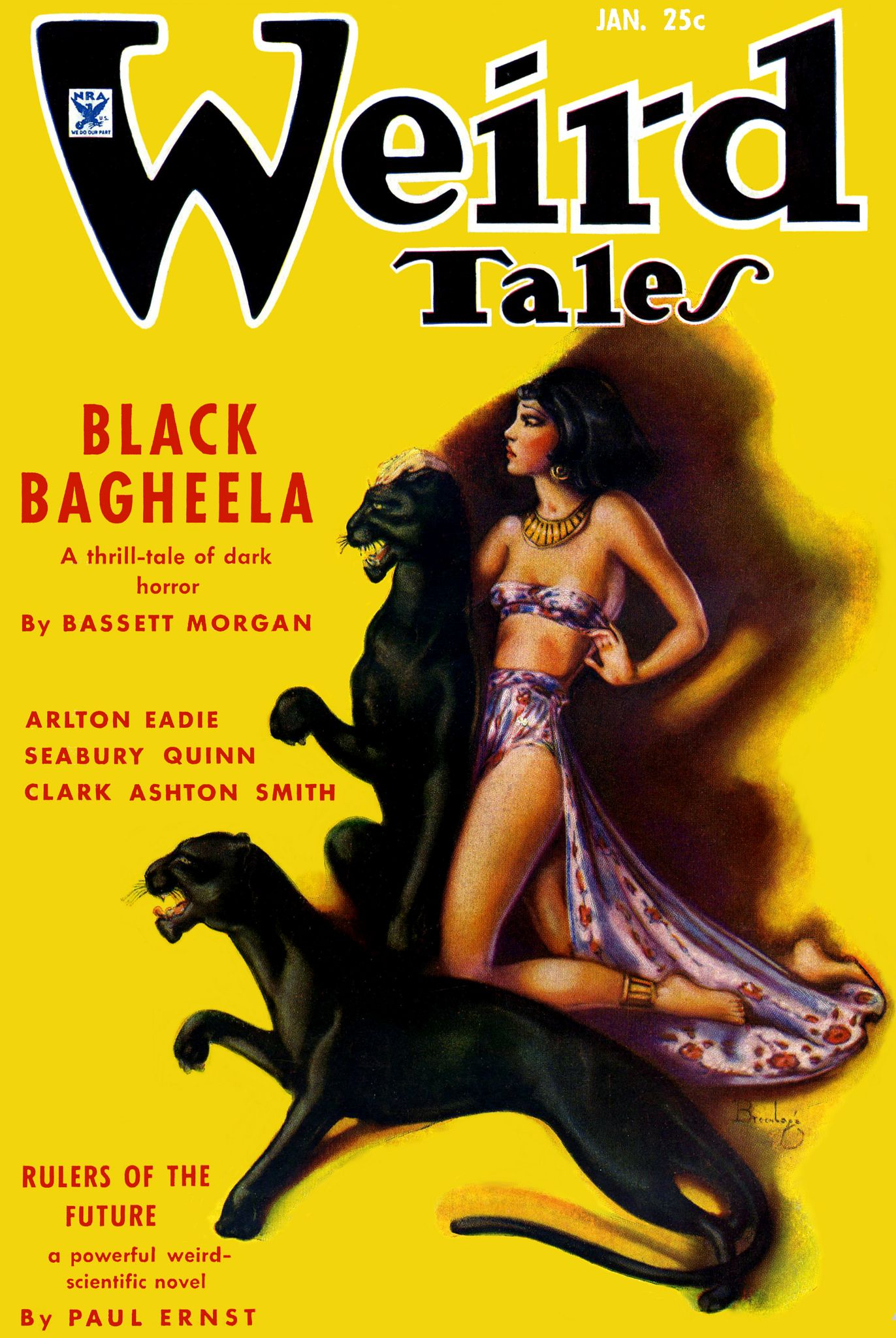 Cover of the pulp magazine Weird Tales (January 1935, vol. 25, no. 1) featuring Black Bagheela by Bassett Morgan. Cover art by Margaret Brundage.